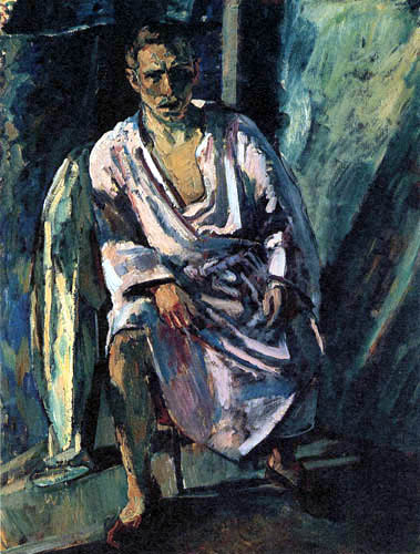 Selfportrait